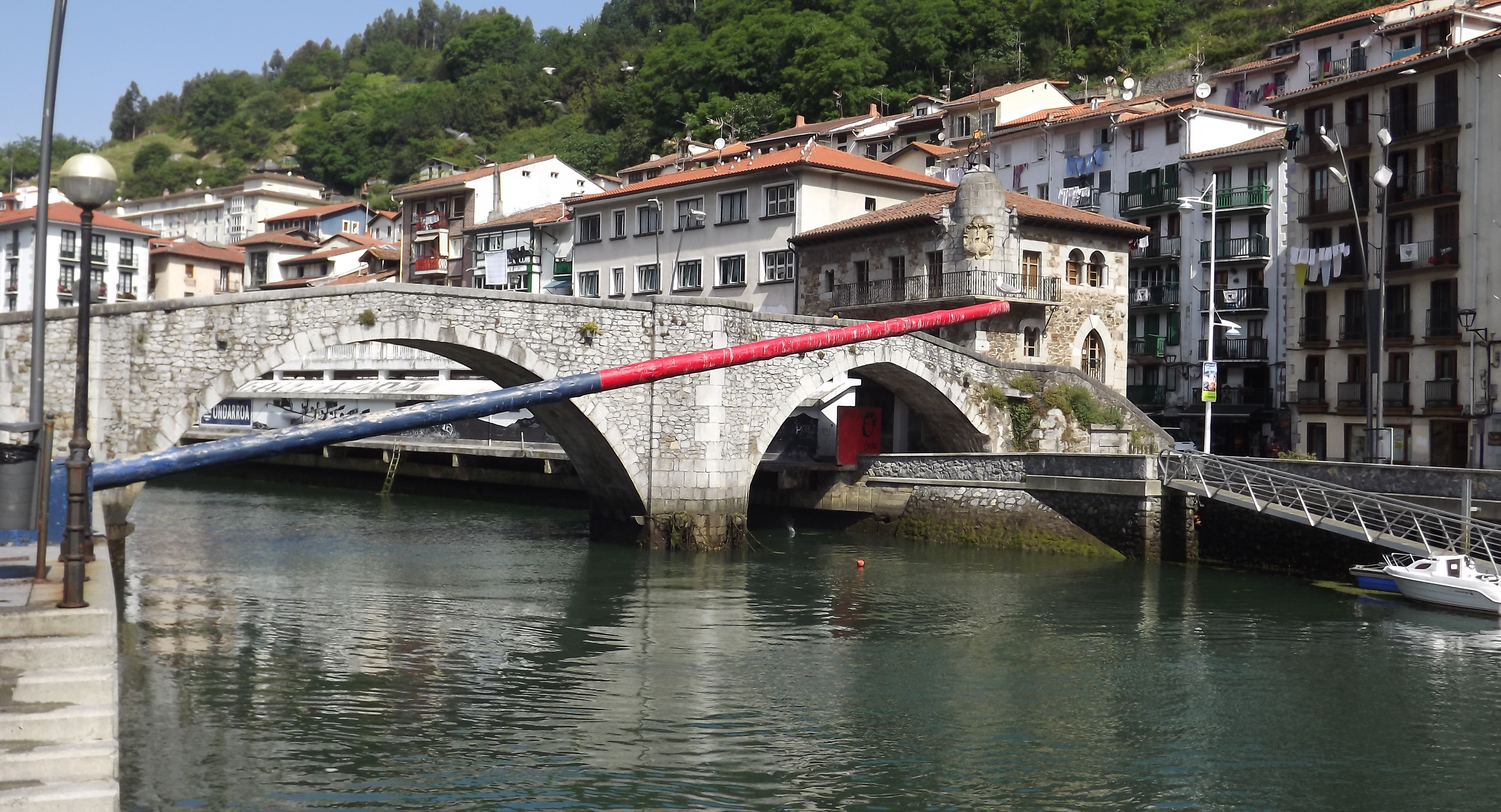 Ondarroa